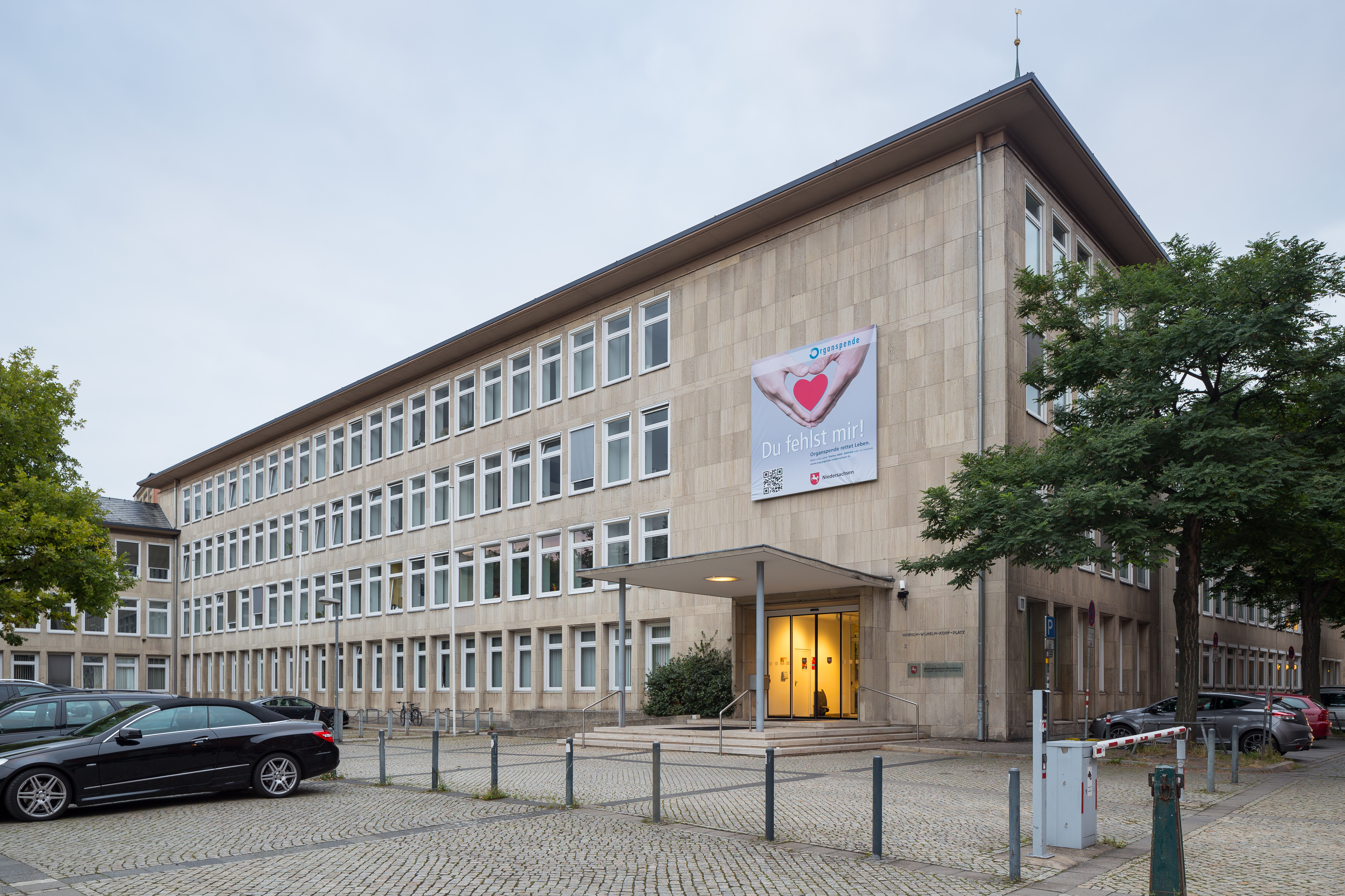 Ministry for social issues, health and equality. The office building is located at Hinrich-Wilhelm-Kopf-Platz 1 in Hanover, Germany.